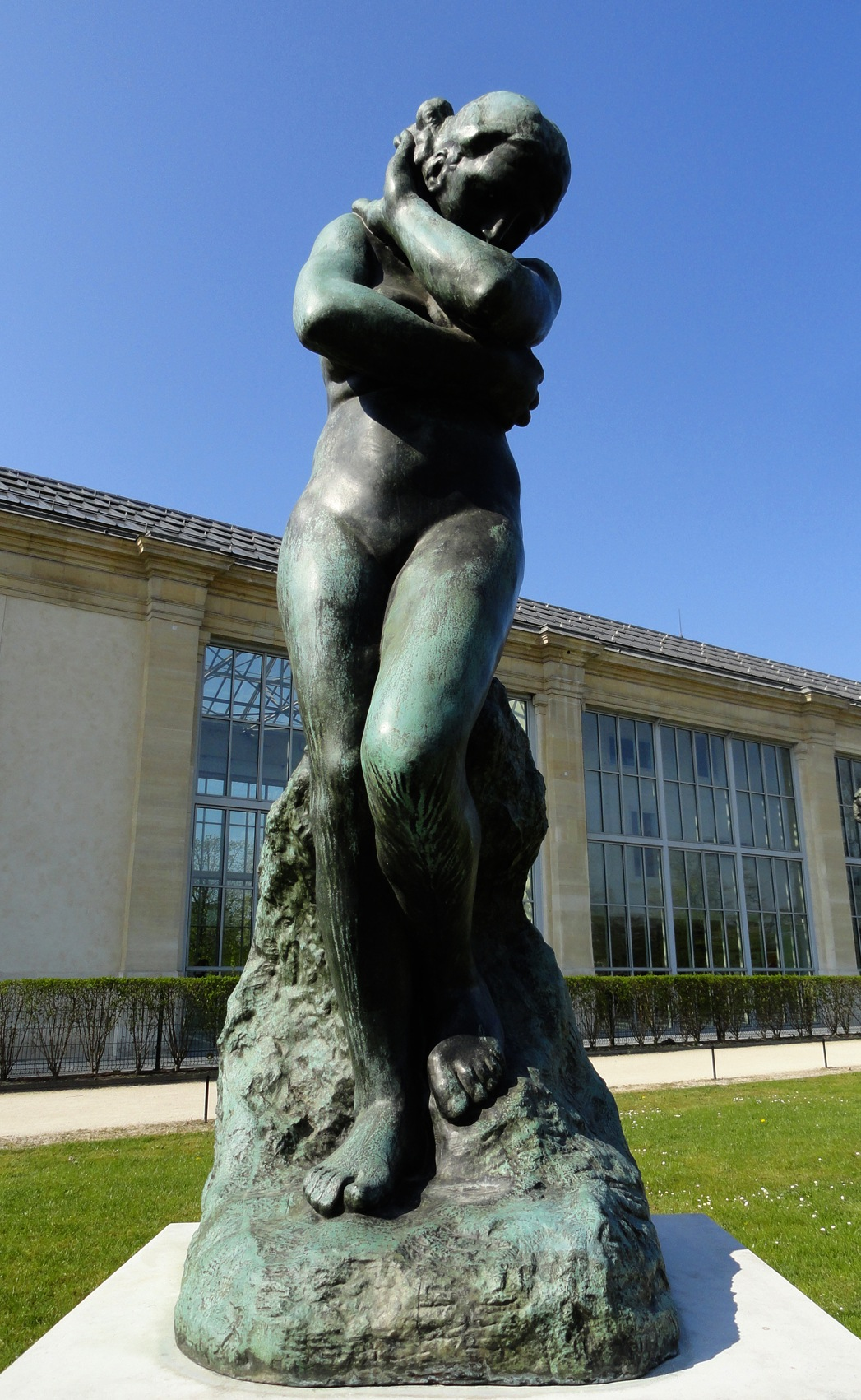 Auguste Rodin, 1881-ca.1899, Éve, bronze, Jardin des Tuilleries, in front of Orangerie museum, Paris